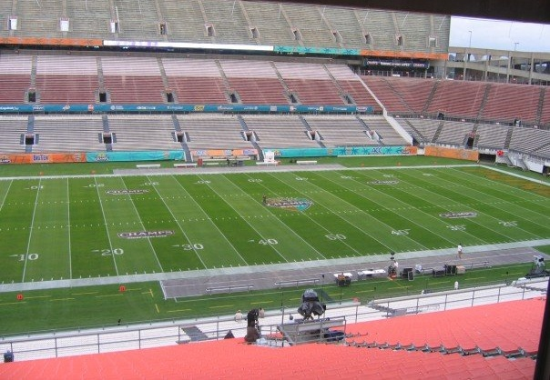 A photo of the empty Florida Citrus Bowl prior to the 2006 Champs Sports Bowl.